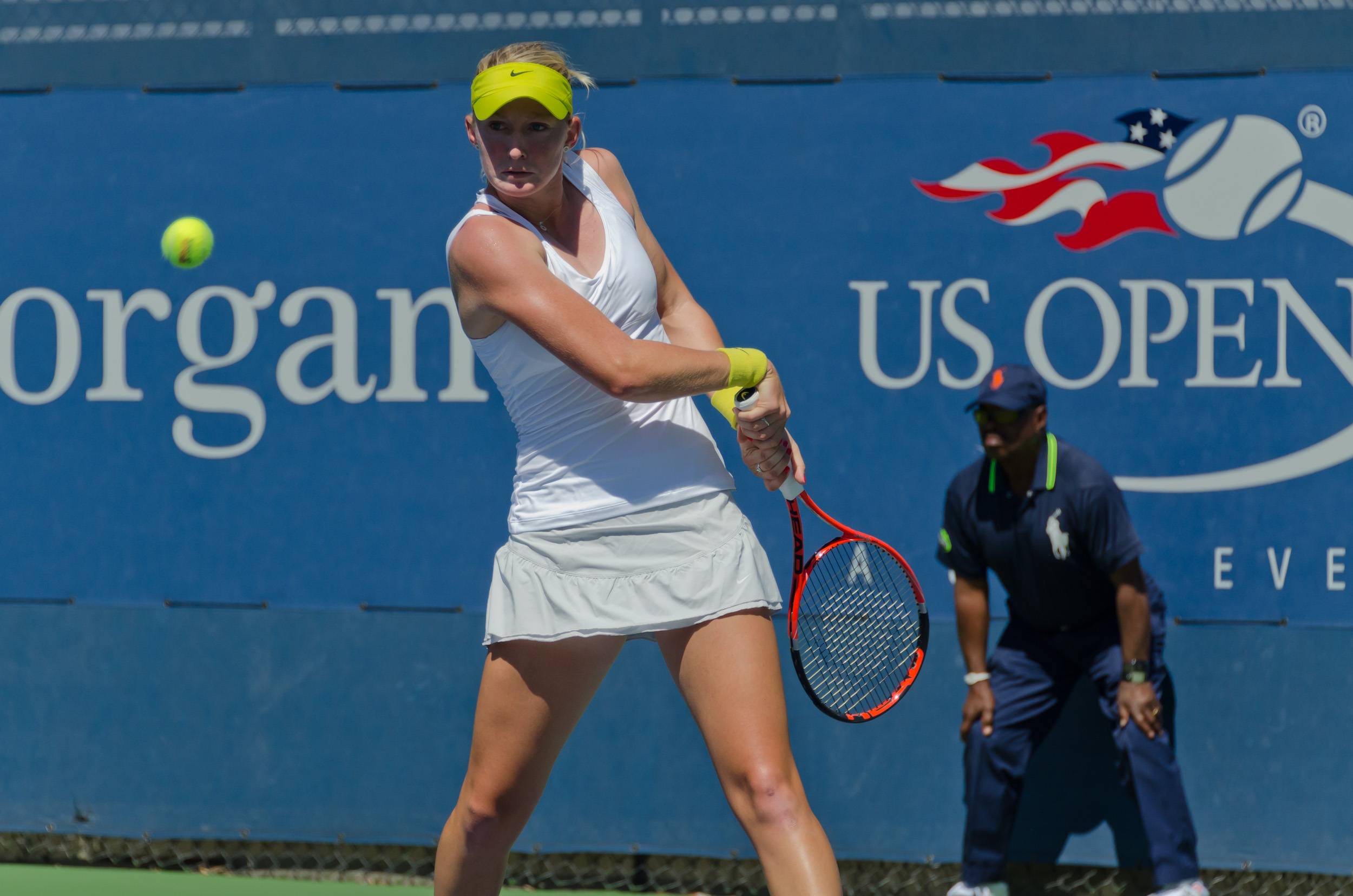 Julia Boserup in a US Open Qualifying match on Aug 23, 2011.